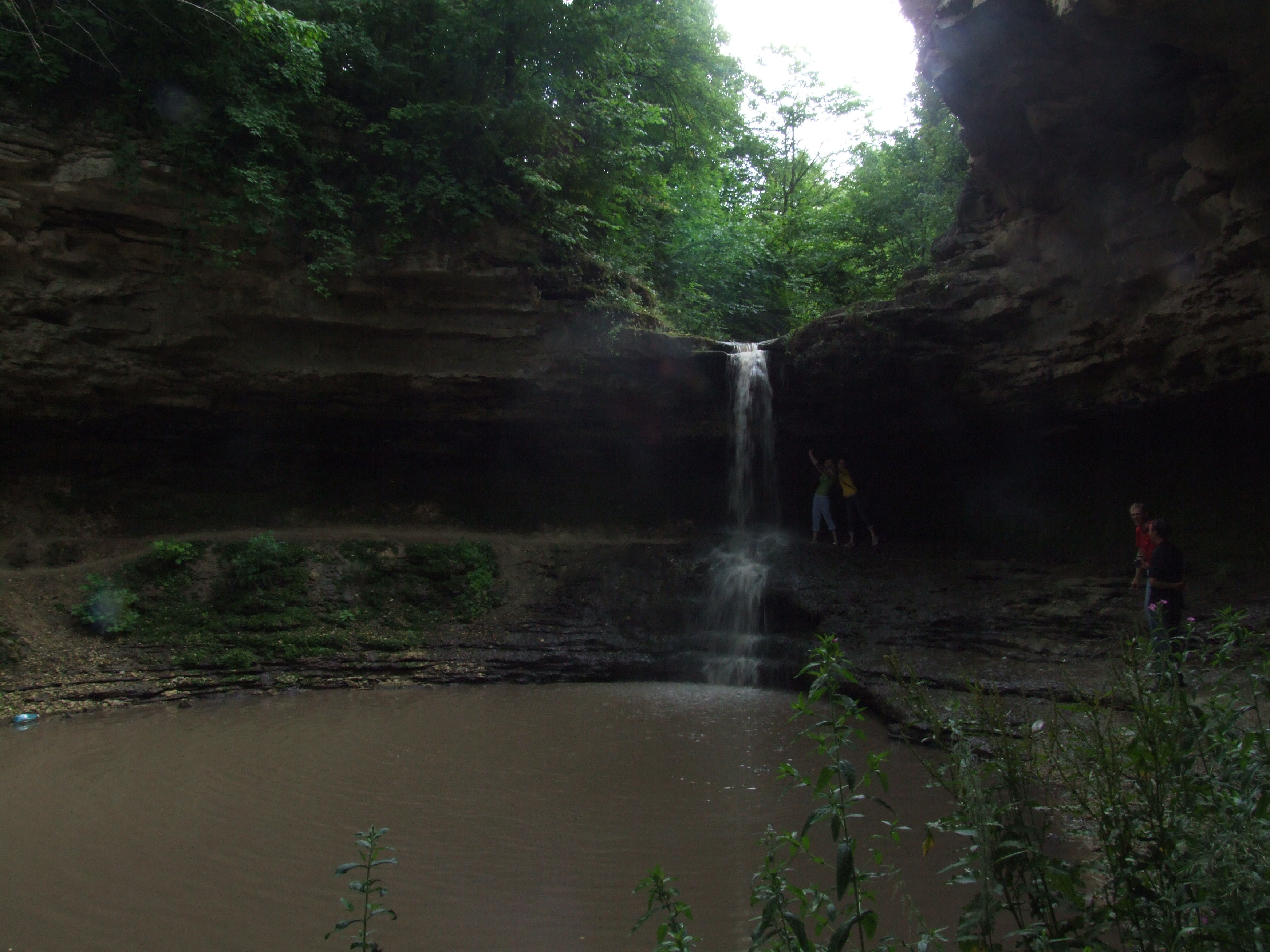 a small waterfall nearby saharna monastery. there was a rain recently that's why the water is like this :(